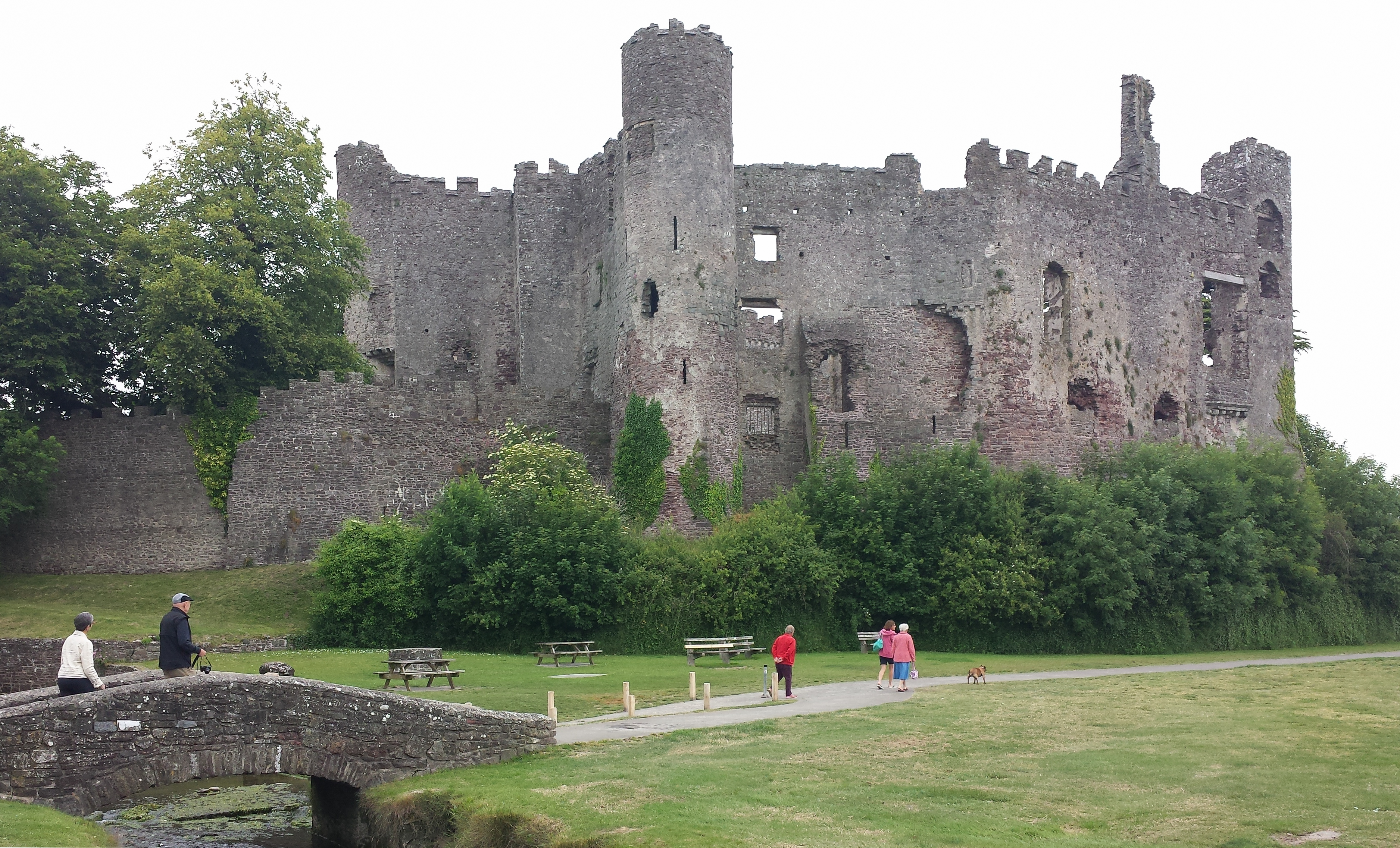 Laugharne Castle, Laugharne, Carmarthenshire, Wales.